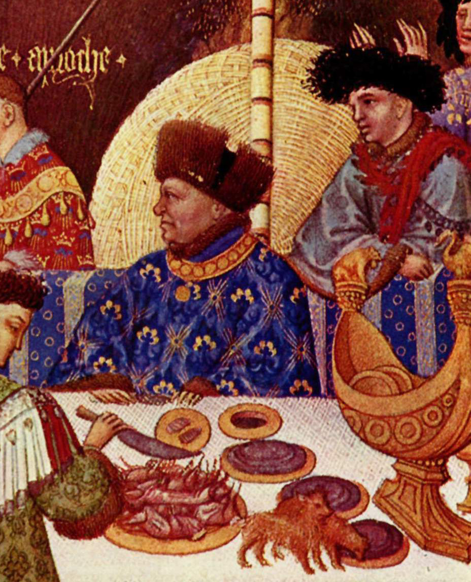 Duc Jean de Berry with nef or Salière de Pavillon. Detail from File:Hennequin und Herman von) Brüder (Pol Limburg 006.jpg